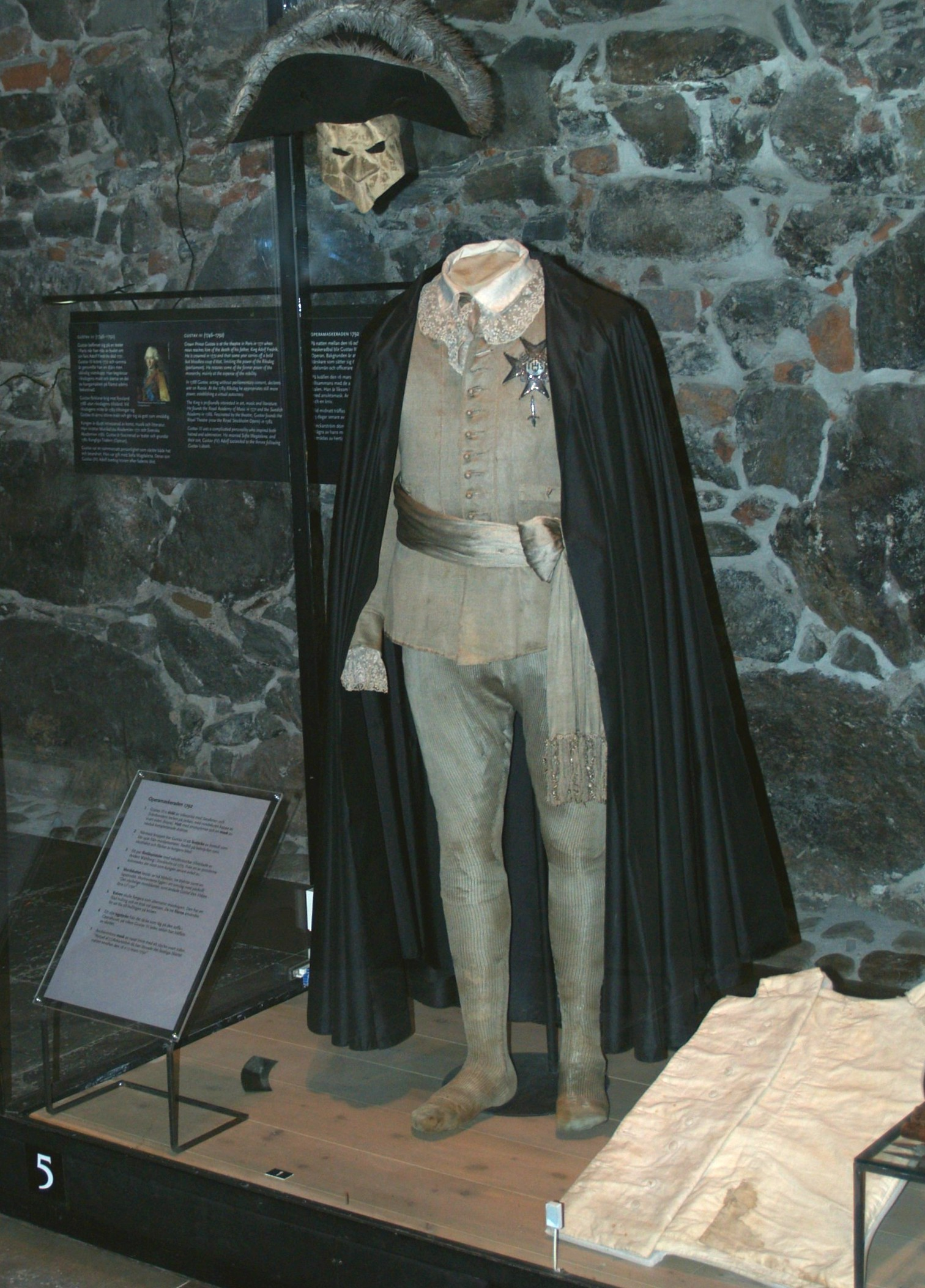 Gustavus III royal dress, from the "Livrustkammaren museum" at the Royal Castle, Stockholm, Sweden. Picture by myself, Ulf Larsen.